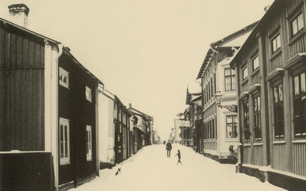 Storgatan (the main street) in Piteå, from the east, 1906